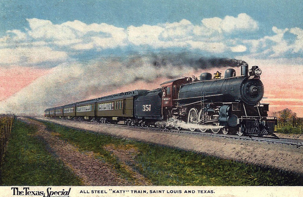 Postcard depiction of the Katy train, The Texas Special.